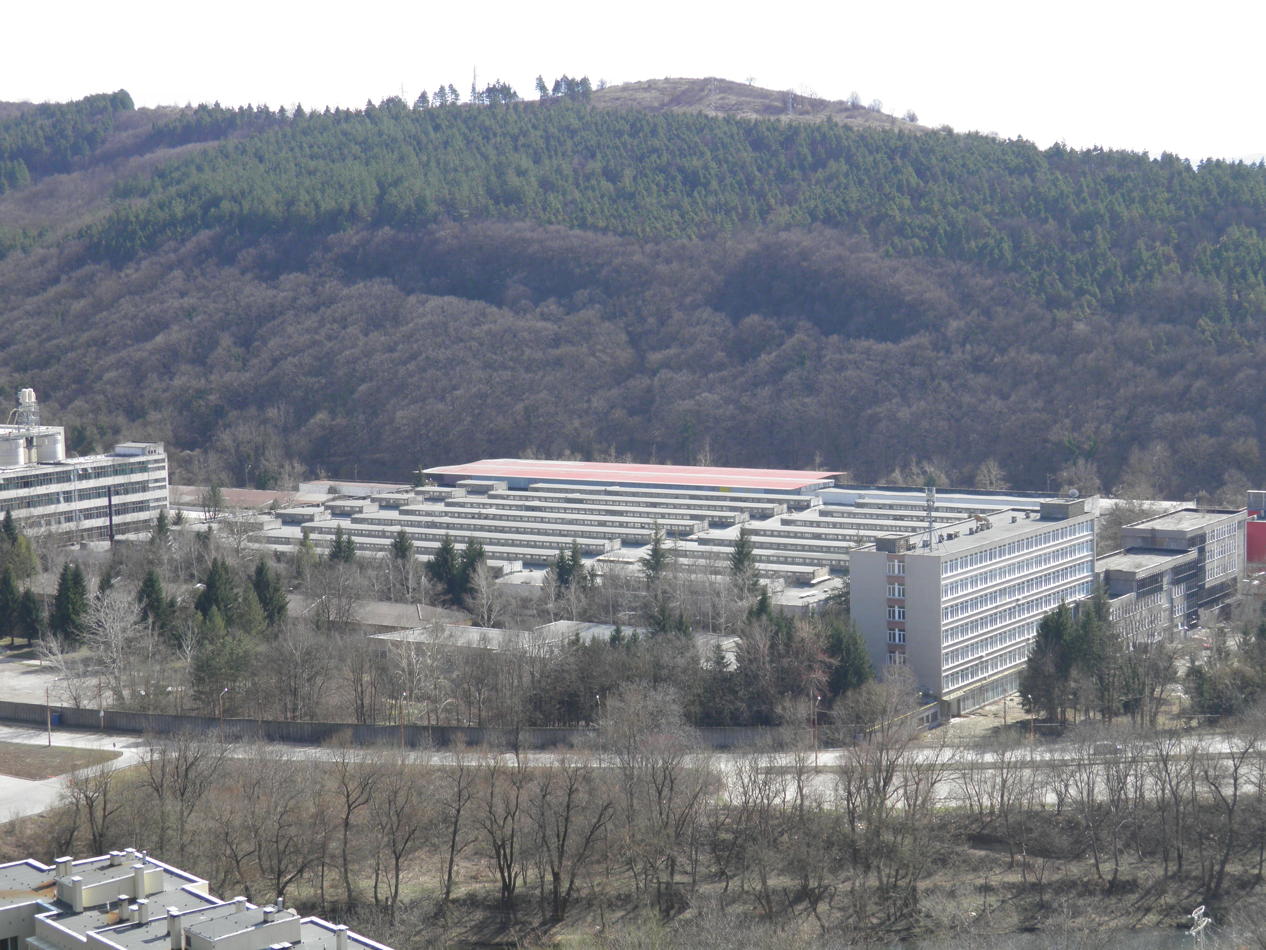 Radiofactory Veliko Tarnovo established in 1963